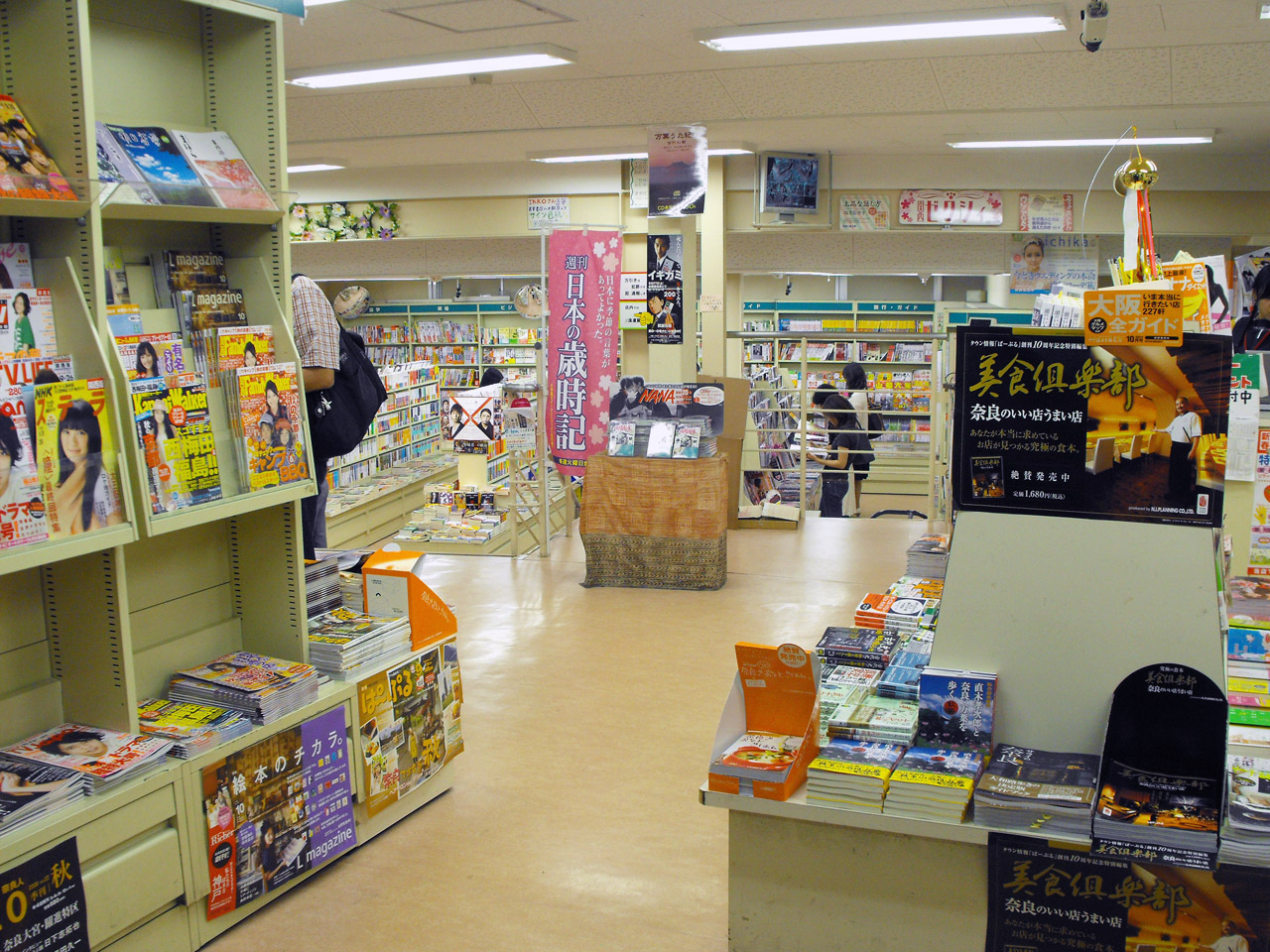 Wakakusa-Shoten (bookstore) in Yamato-Yagi Railway Station, Nara, Japan